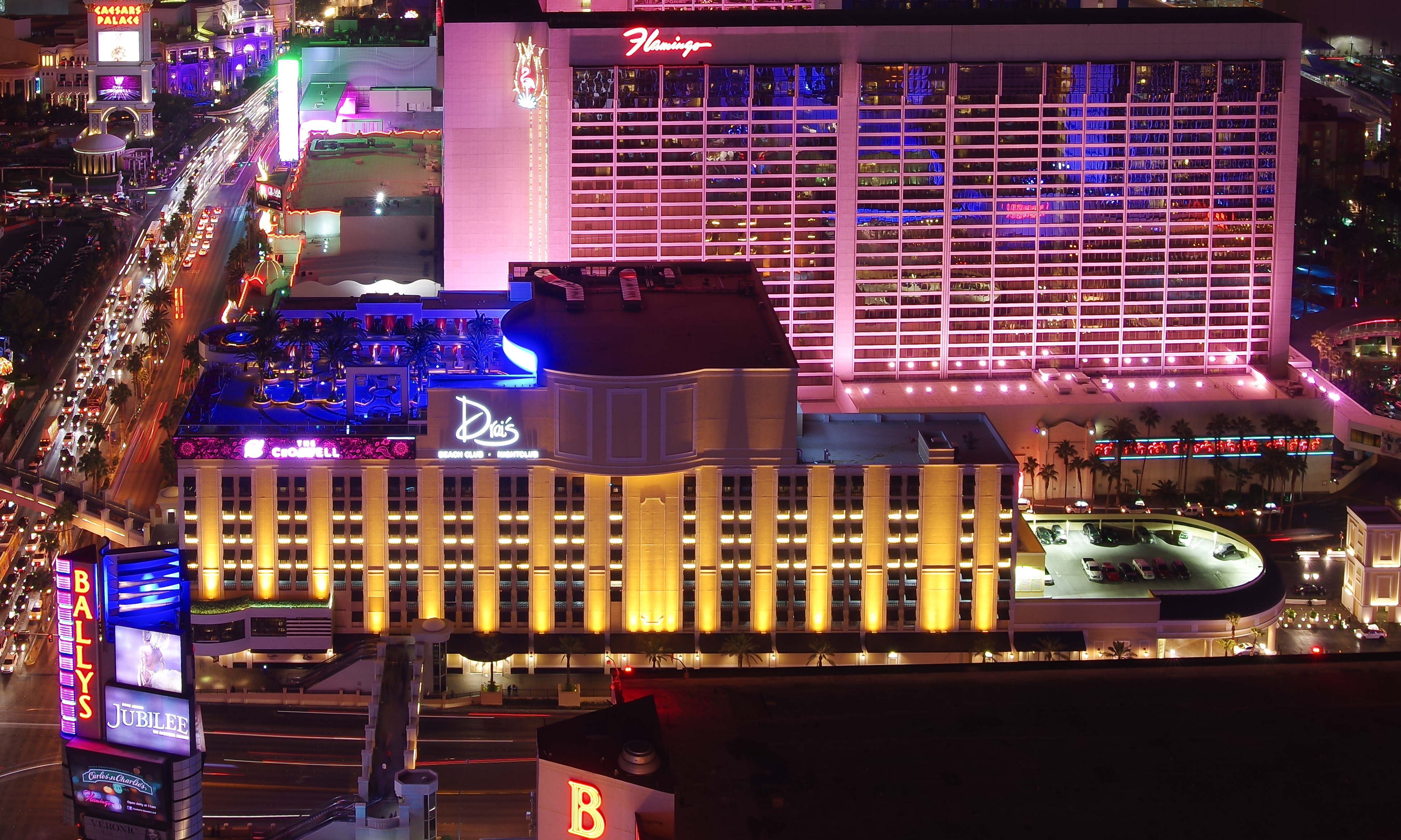 The Cromwell Las Vegas at Night, photographed from the Paris Eiffel Tower.